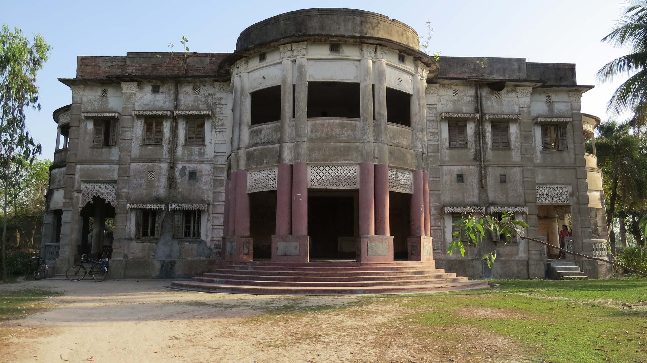 Jomidarbari, Dupchanchia, Rajshahi